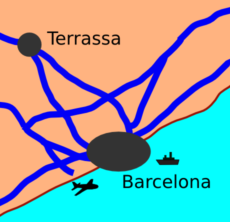 Motorways between Terrassa and Barcelona.